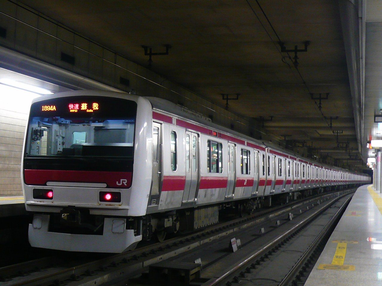 JR East E331 series set AK1 at Tokyo Station on a Keiyo Line service to Soga